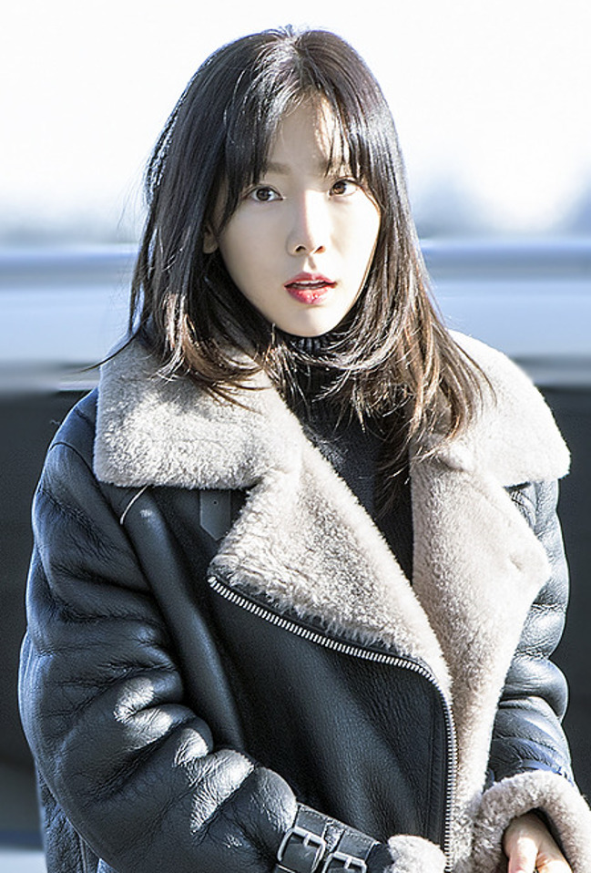 Kim Tae-yeon at Incheon Airport on January 12, 2018.